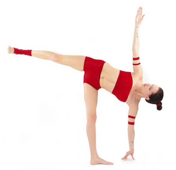 Ardha Chandrasana by Nina Mel, Yoga Teacher